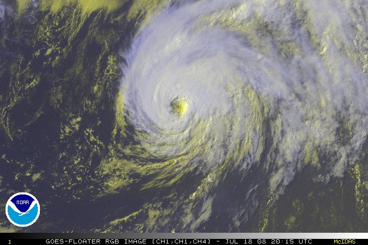 An RGB-enhanced visible image of Hurricane Bertha at Category 1 strength on 18th July.